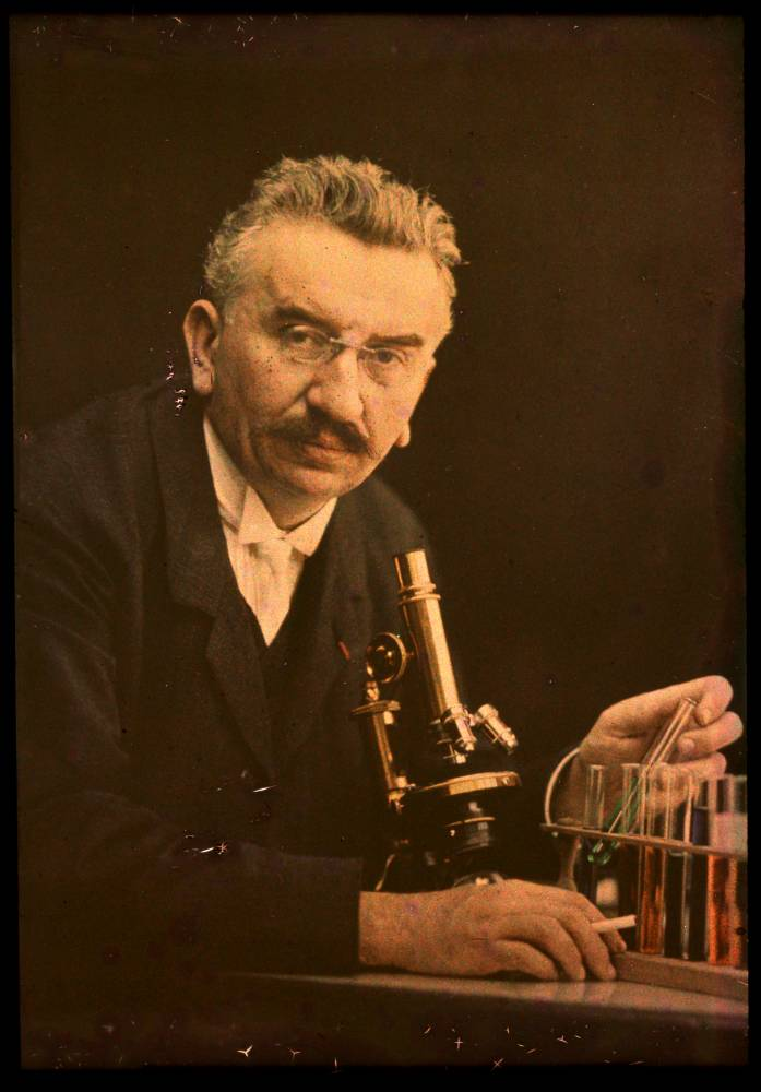 Louis Lumiere with microscope and test tubes, looking towards camera. Autochrome portrait. Note: Lumiere is co-inventor of the Autochrome process; this may depict him working on it, with color dyes in the test tubes.